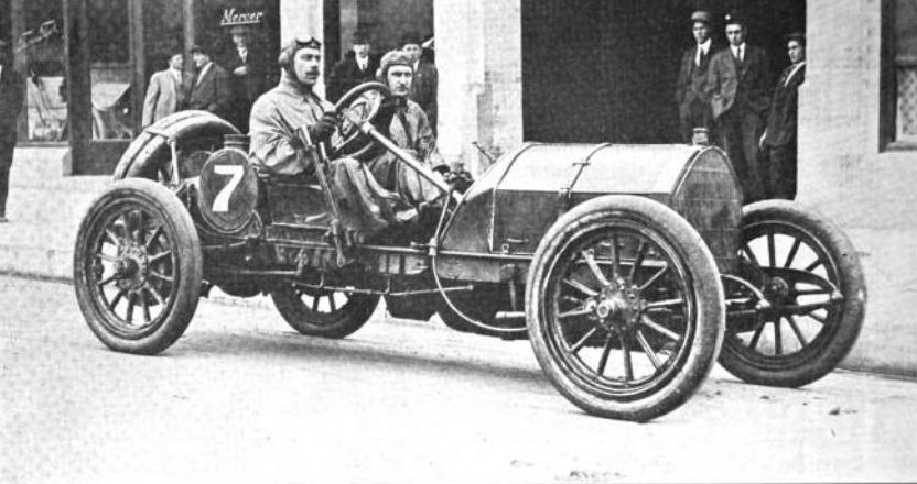 Race car driver Charles Bigelow and his mechanic pose for a photograph in their Mercer car, ca. 1911, in front of a Mercer dealership.